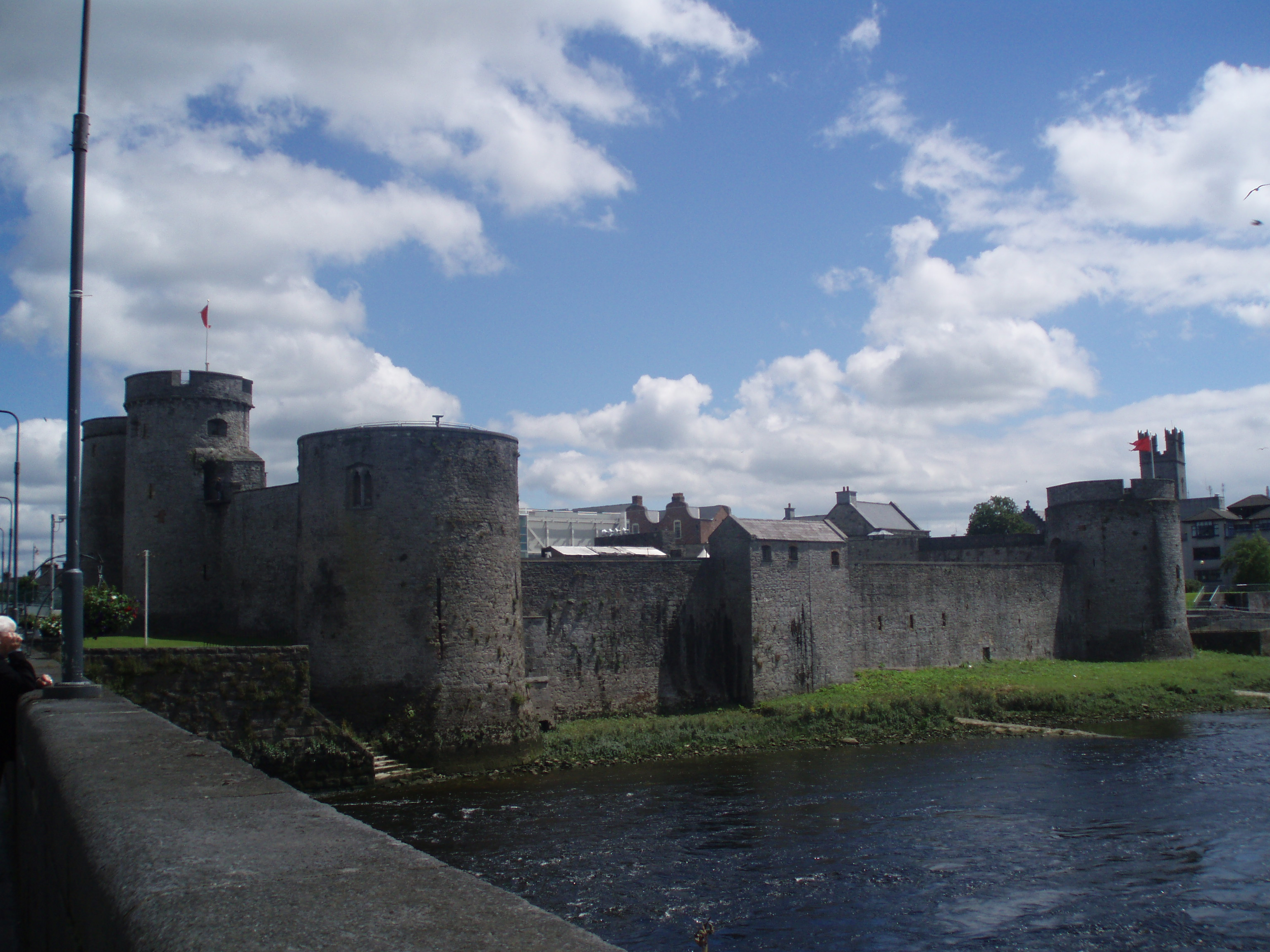 Limerick Castle